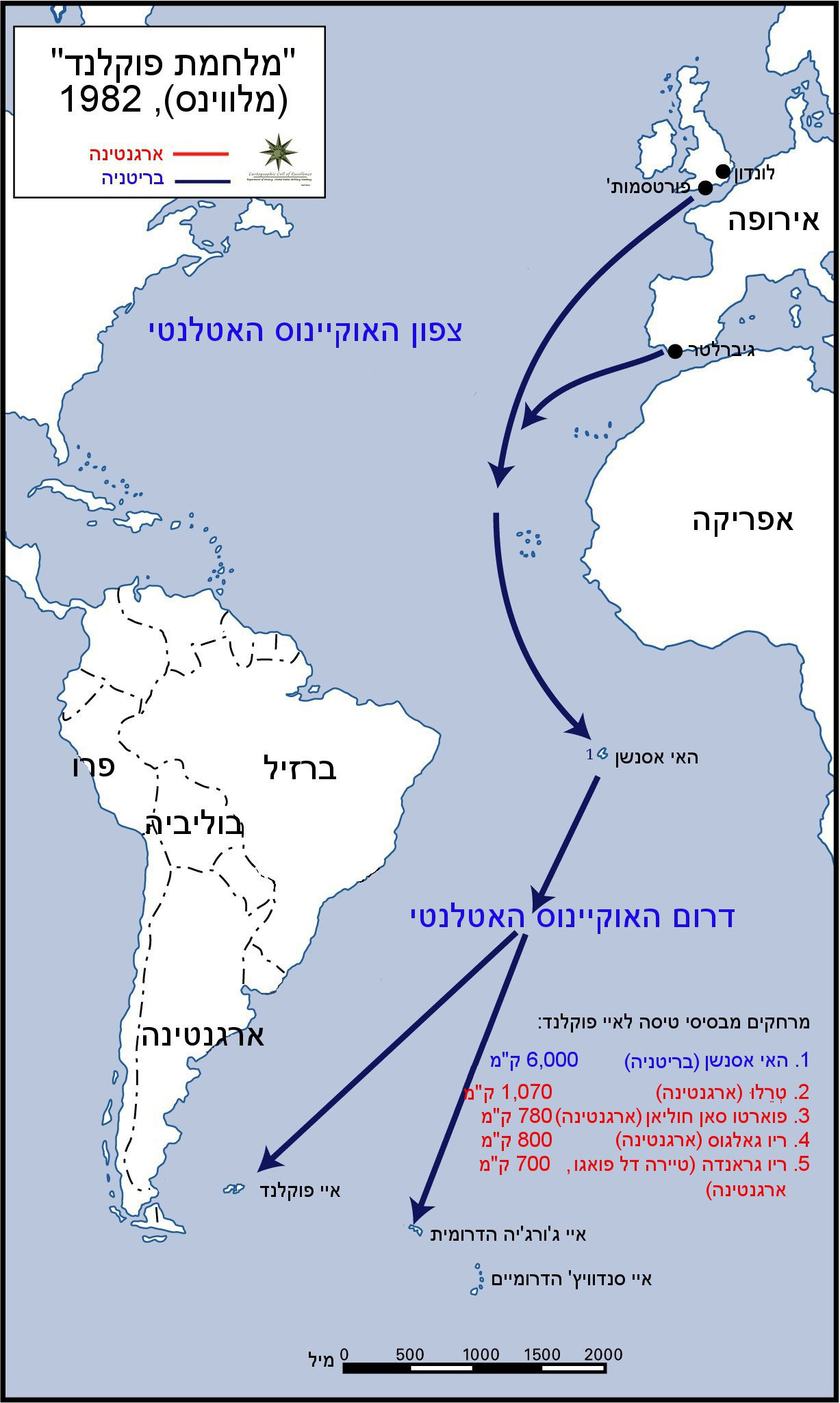 Falklands, Campaign, (Distances to bases) 1982